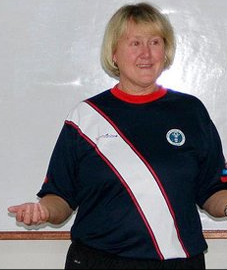 US Women's National Team General Manager on a trip to Malaysia with a government exchange program